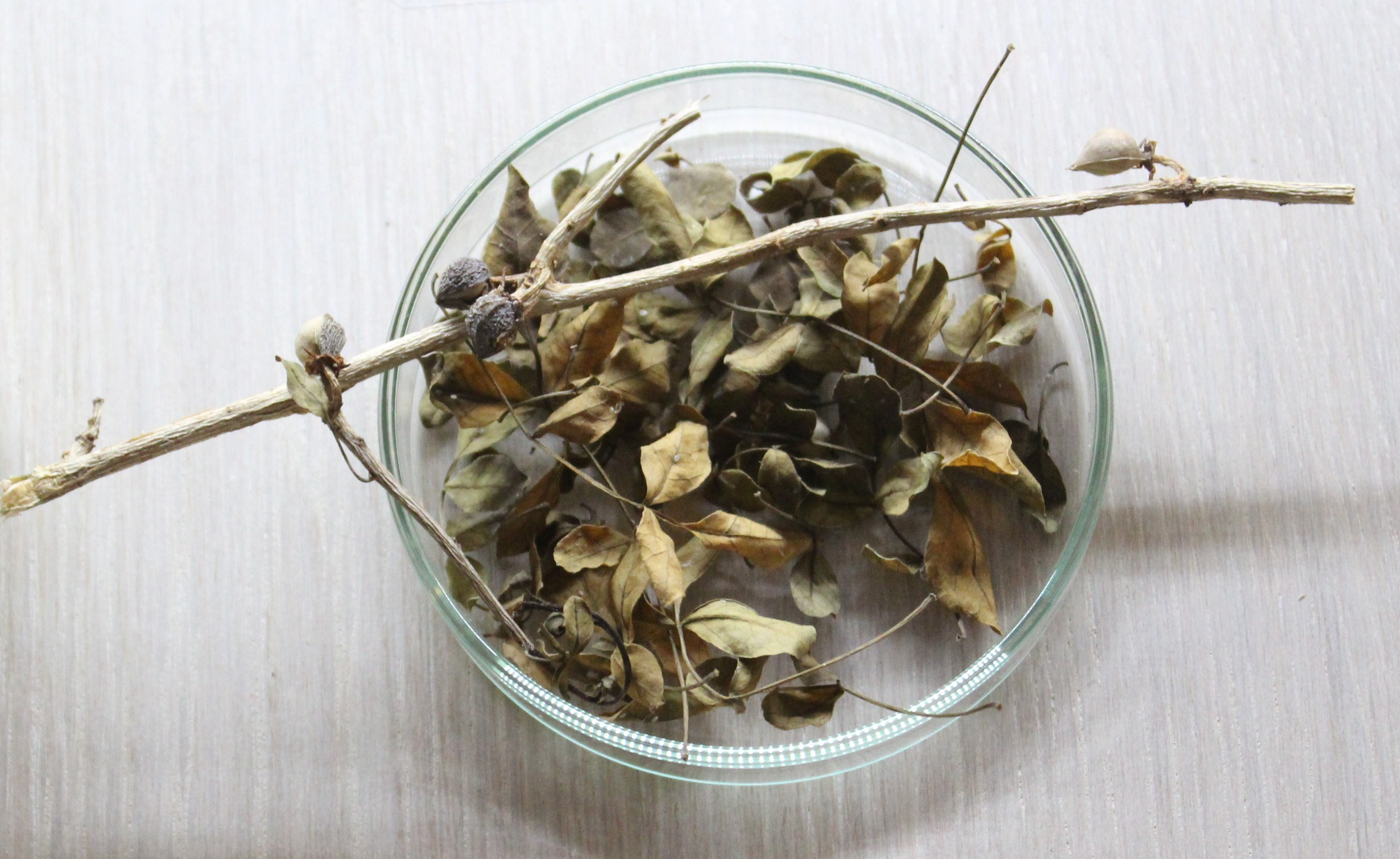 Balm of Gilead